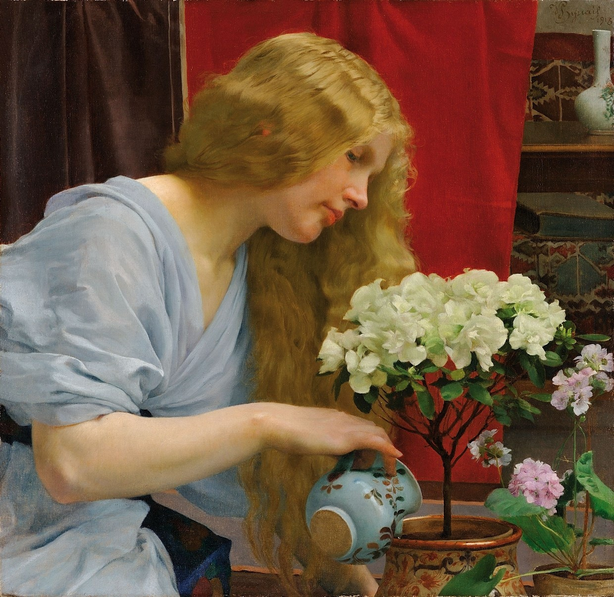 Divka à azalkou